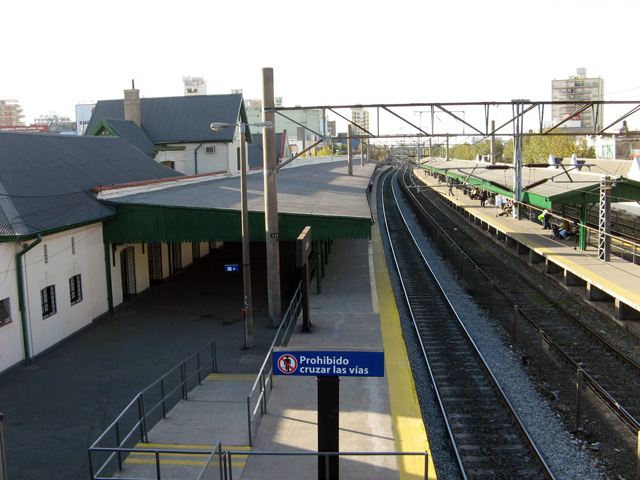 Lanús Train Station